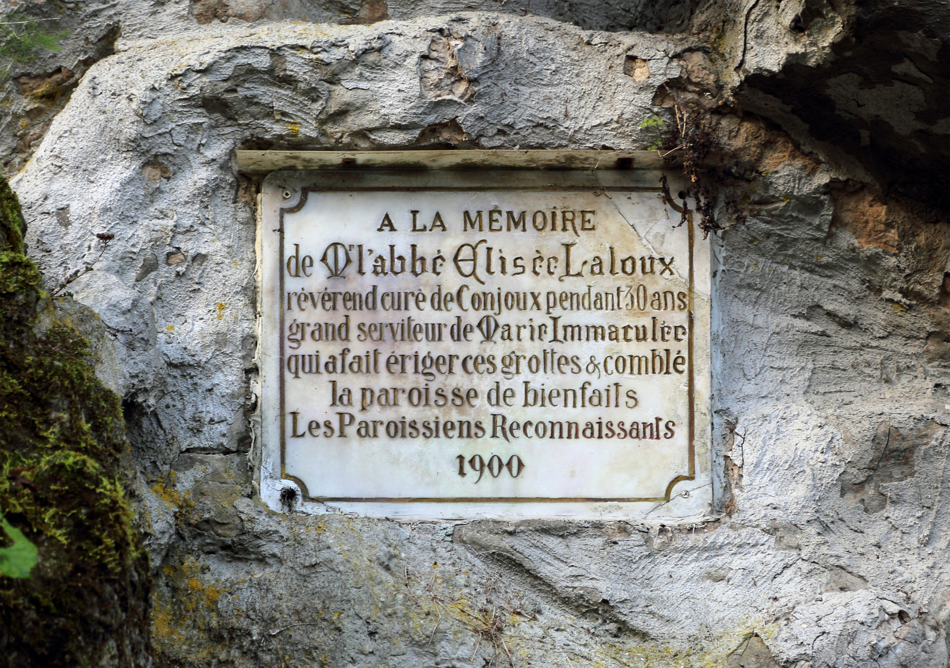 Conjoux (municipality of Ciney, province of Namur, Belgium): Lourdes grotto - detail